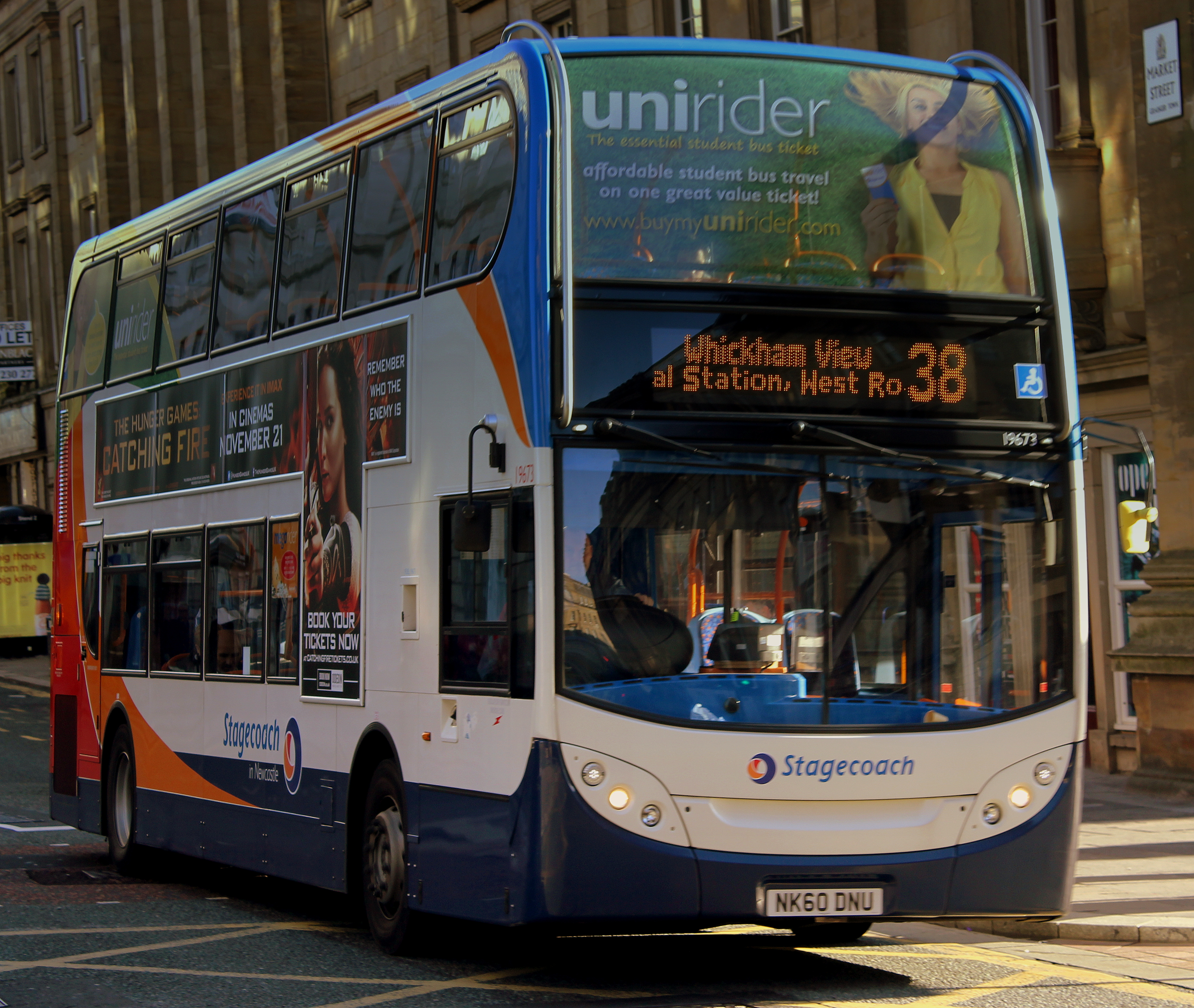 STAGECOACH IN NEWCASTLE ALEXANDER DENNIS ENVIRO 400 NEWCASTLE CITY CENTRE NOV 2013